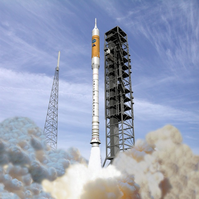 The Ares I Crew Launch Vehicle is being developed at Marshall Space Flight Center in Huntsville, Alabama, and is a two-stage vehicle designed solely for carrying the Orion CEV to Earth orbit. The 94-meter-high, 5.5-meter-tall CLV will be launched from Kennedy Space Center's LC-39B pad (currently supporting Shuttle operations). The first stage is a five-segment solid rocket booster providing 14,700 kN of thrust and derived from the Space Shuttle’s own SRBs (Solid Rocket Boosters). ATK will produce these and the identical boosters used on Ares V. The exhausted first stage will be recovered in the water, just like its predecessor, for testing and performance verification. The second stage is a fully-expendable cryogenic liquid booster to be built by Boeing and powered by a single J-2X engine derived from the second stage of the Saturn V moon rocket. This configuration is projected to deliver 25,000 kg to Low Earth Orbit. The Orion CEV will sit on top of the second stage and be protected by a Launch Escape System during the initial stages of flight. The Launch Escape System consists of an aerodynamic protective cover that attaches over the Orion crew capsule and a tower equipped with solid-fueled escape motors and flight control hardware. To avoid a repeat of the Challenger incident, the crew is placed as far away from the actual rocket segments as possible. The Orion can be pulled away from the stack by the Launch Escape System's rocket motors in an emergency. The protective cover prevents damage to the crew capsule from debris and the exhaust of the escape motors.